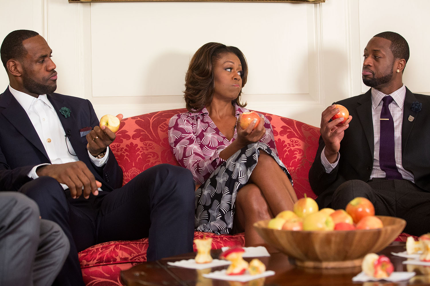 First Lady Michelle Obama tapes a "Let's Move!" public service announcement with 2013 NBA Champion Miami Heat players LeBron James, left, and Dwyane Wade, in the Map Room of the White House, Jan. 14, 2014. (Official White House Photo by Amanda Lucidon)